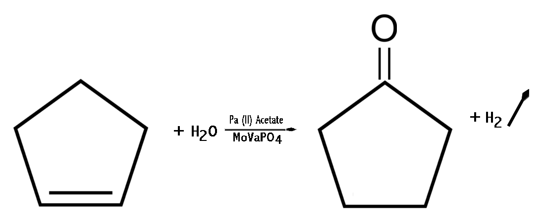 Cyclopentanone synthesis by Wacker Oxidation